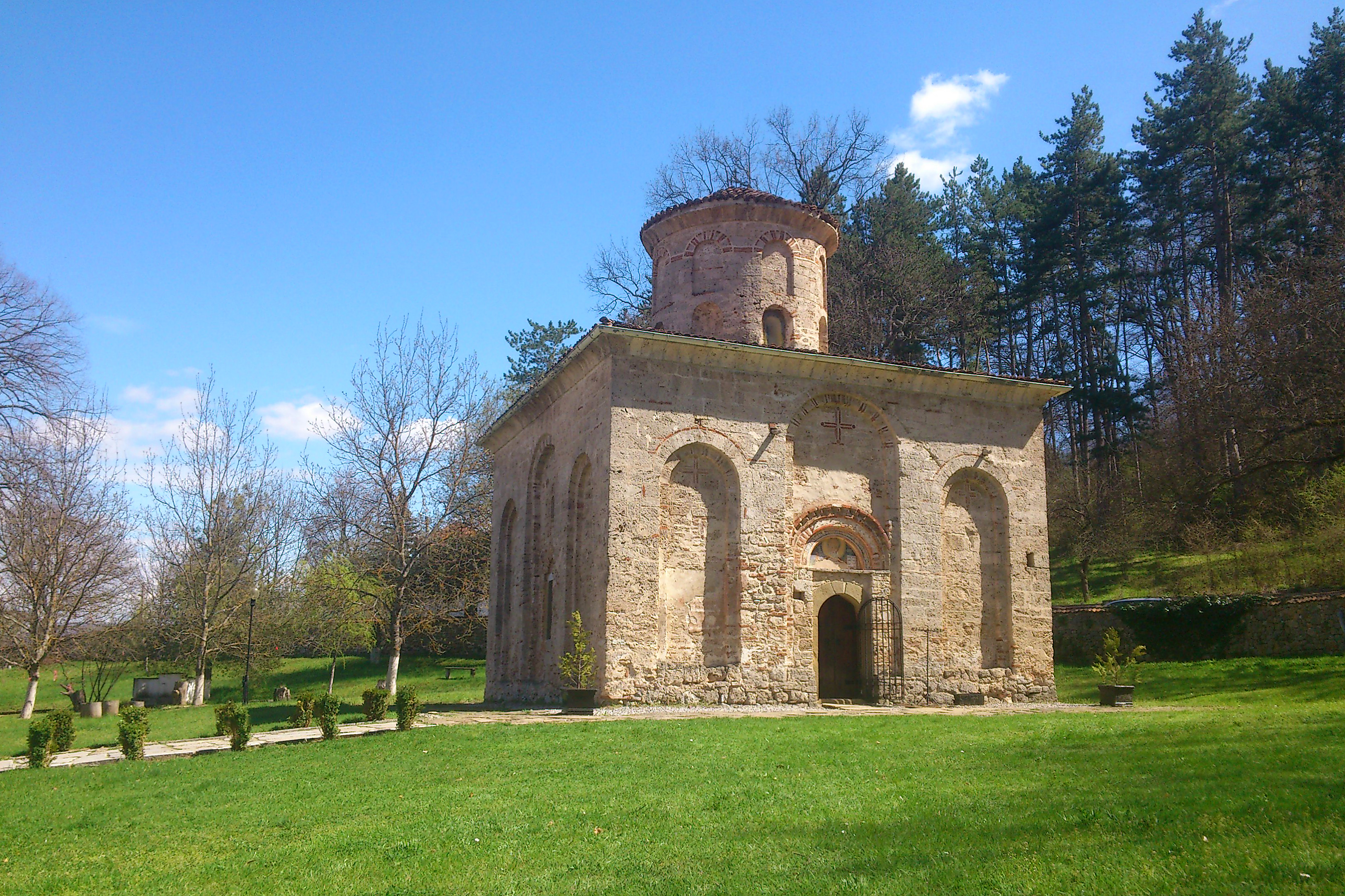 Zemen Monastery